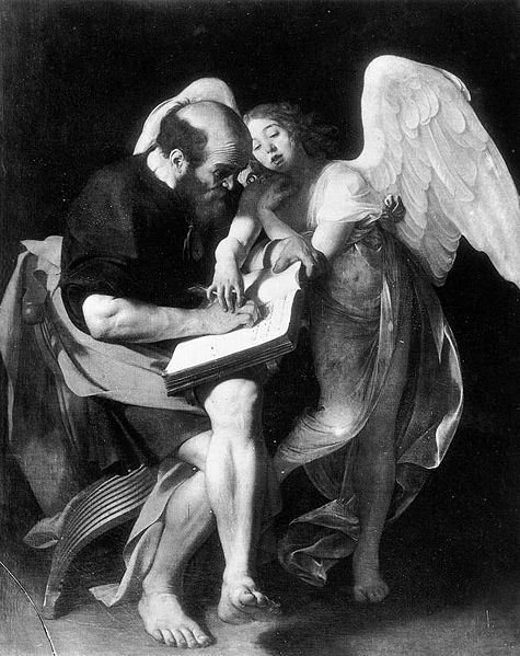 'Saint matthew and the Angel', 1602, by Caravaggio (1571-1610). From Web Gallery of Art. Web gallery of Art has given permission for use of images on Wikipedia.